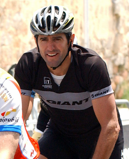 Abraham Olano, Spanish cyclist.